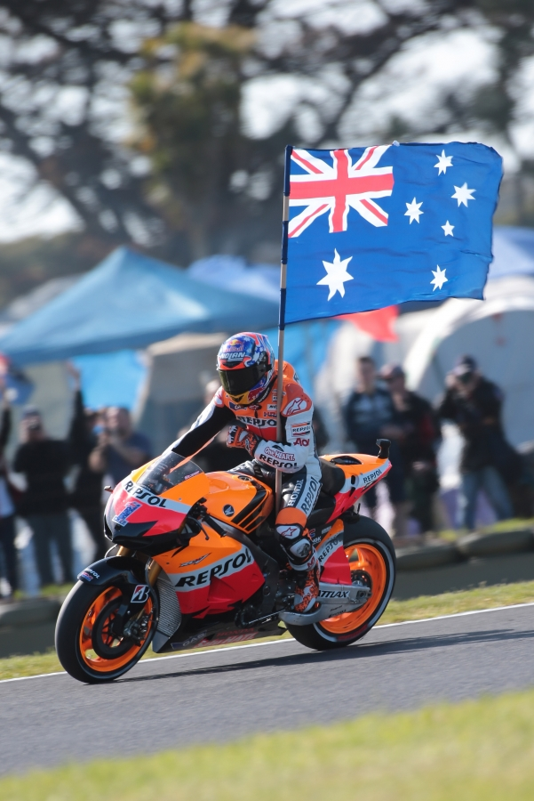 Casey Stoner, sitting on his Repsol Honda, waving the Australian flag to celebrate his last victory with the Repsol Honda team after winning the 2012 Australian Grand Prix.